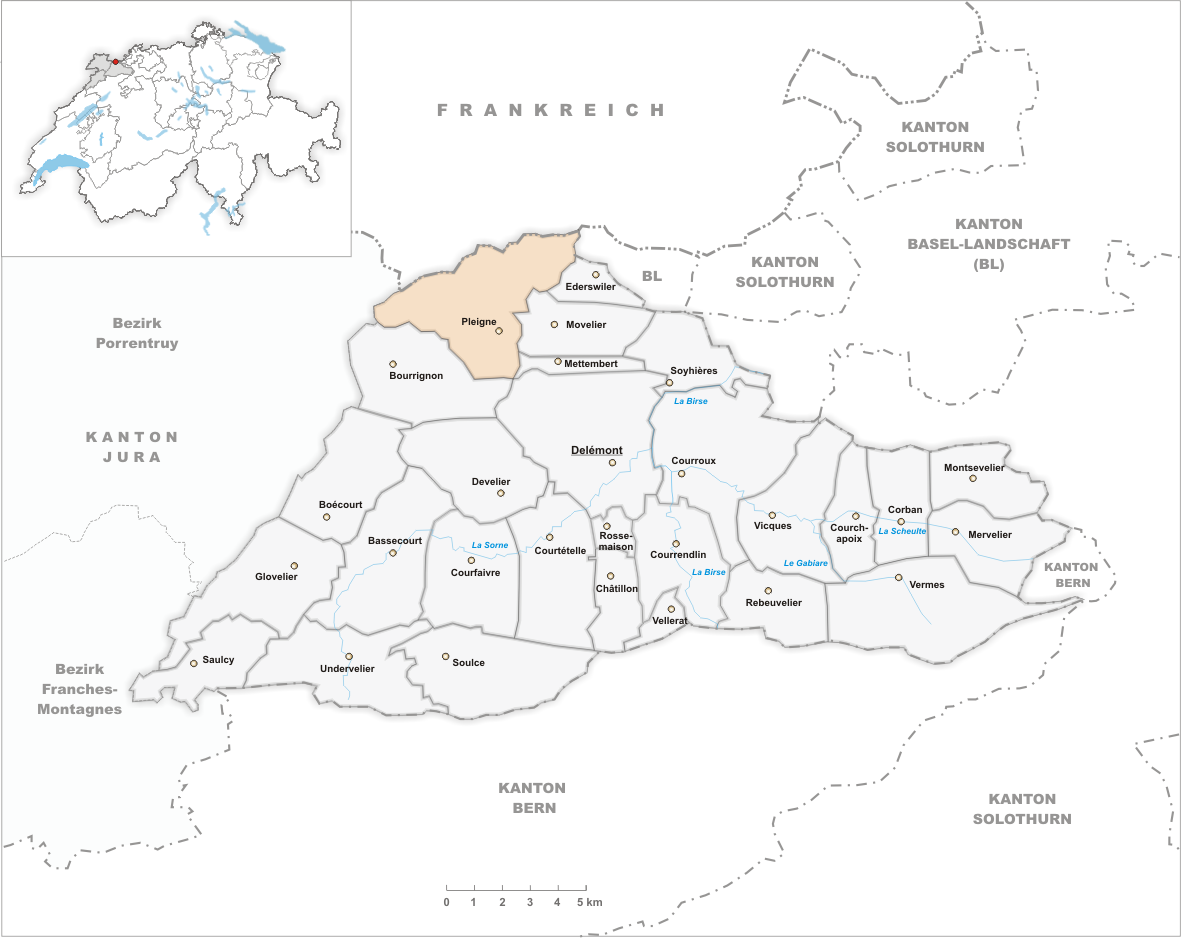 Municipality Pleigne